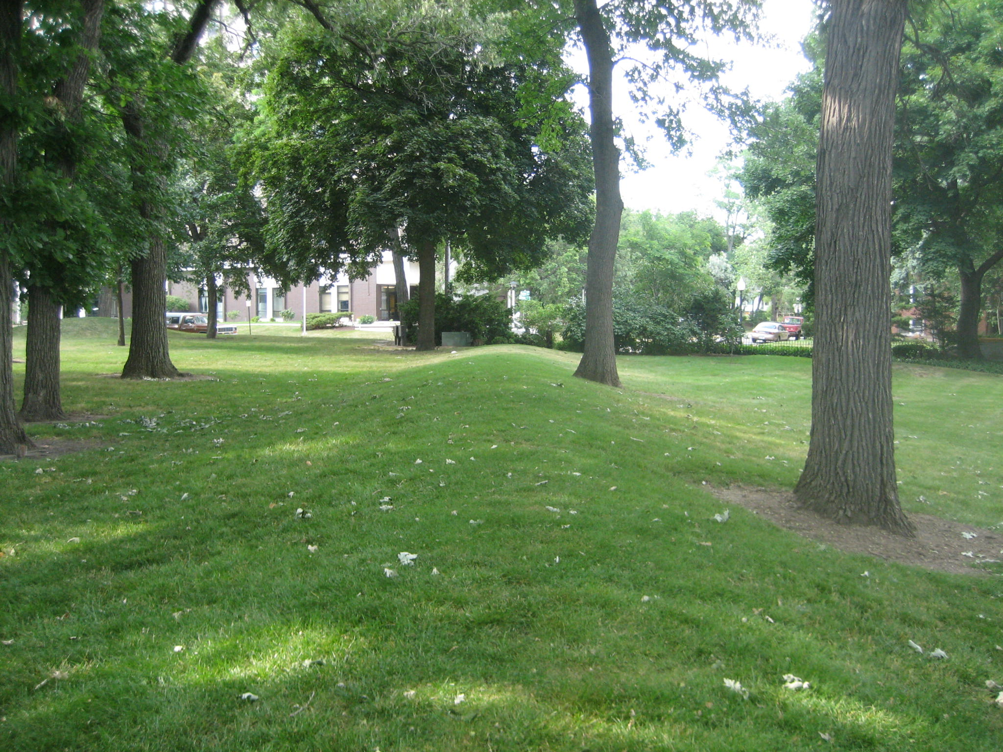 Beattie Park Mound Group, Beattie Park, downtown Rockford, Illinois. U.S. National Register of Historic Places